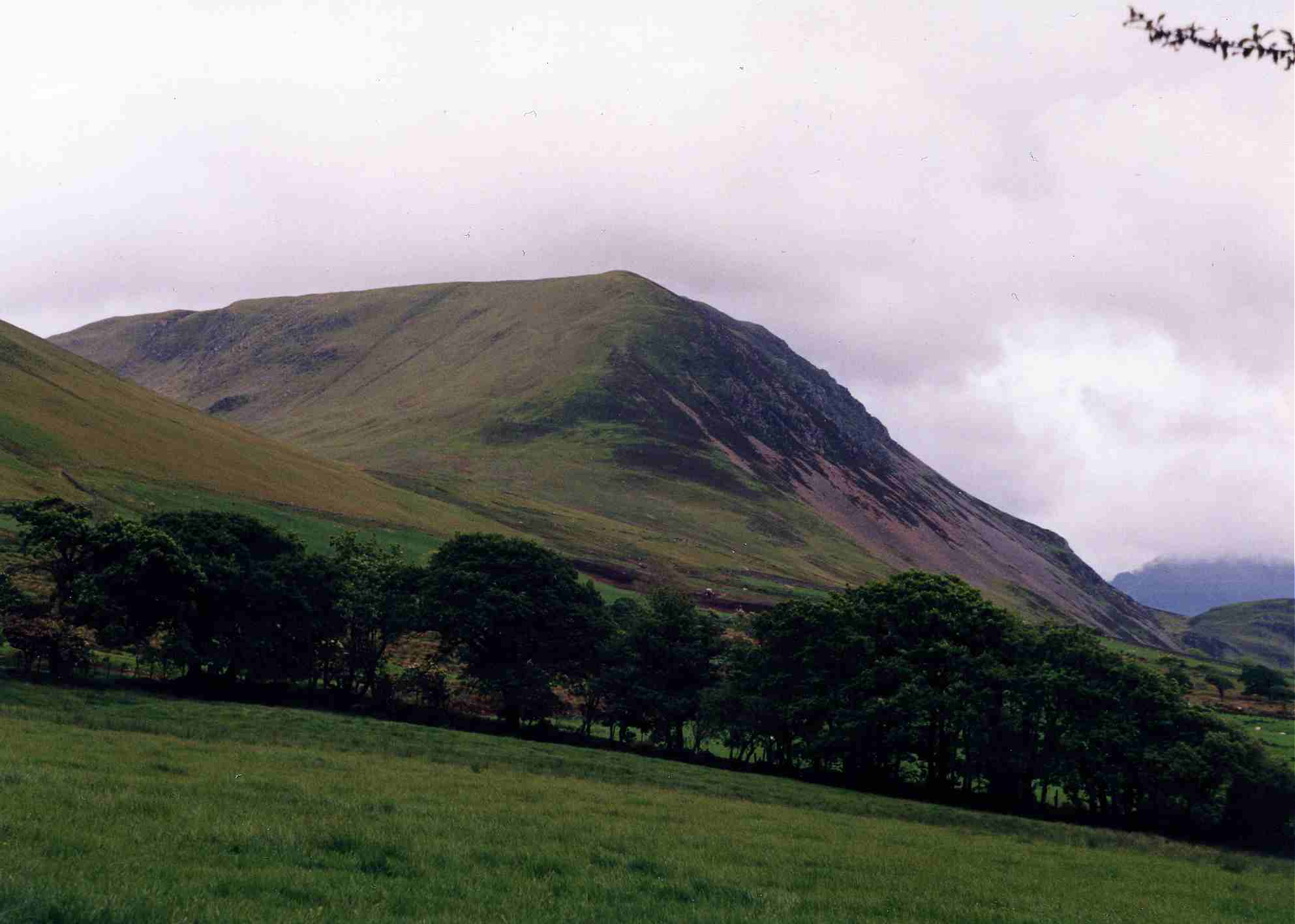 Personal picture taken by Mick Knapton